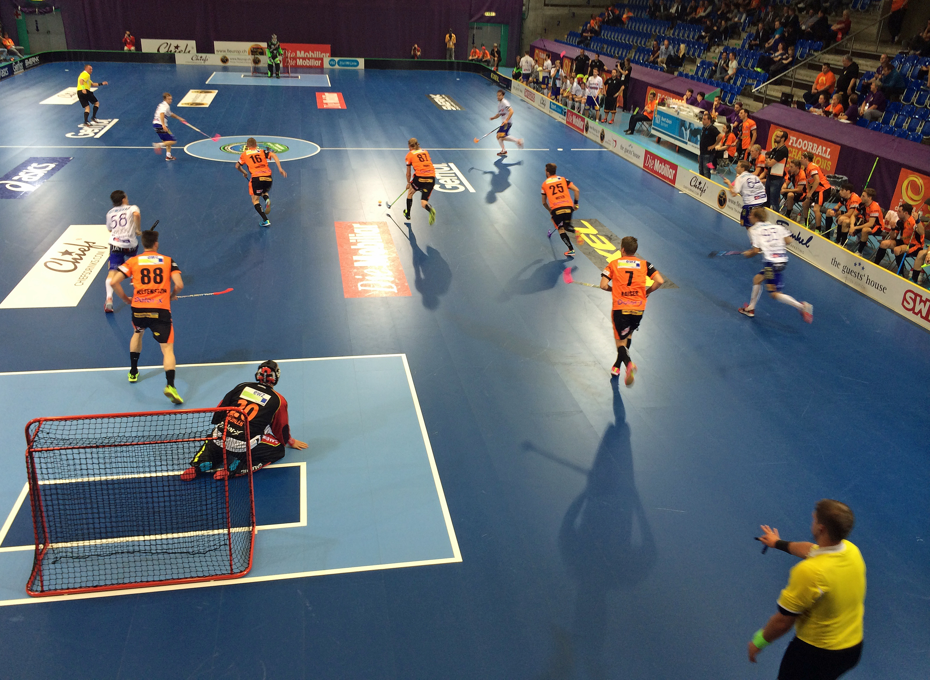 Floorball: Champions Cup at Saalsporthalle Zürich; Grasshopperclub Zürich playing against 1. SC Vítkovice